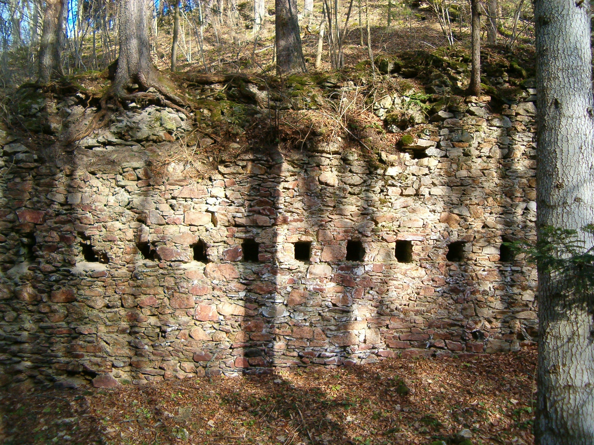 Přiběnice castle near Tábor